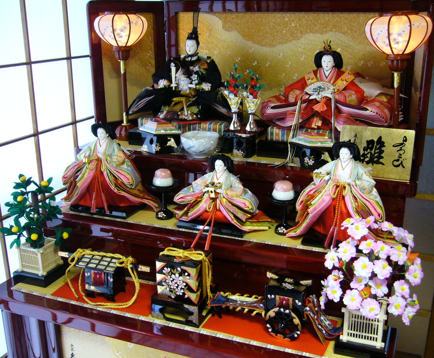 A doll displayed at the Girls' Festival,hina-ningyo,katori-city,japan